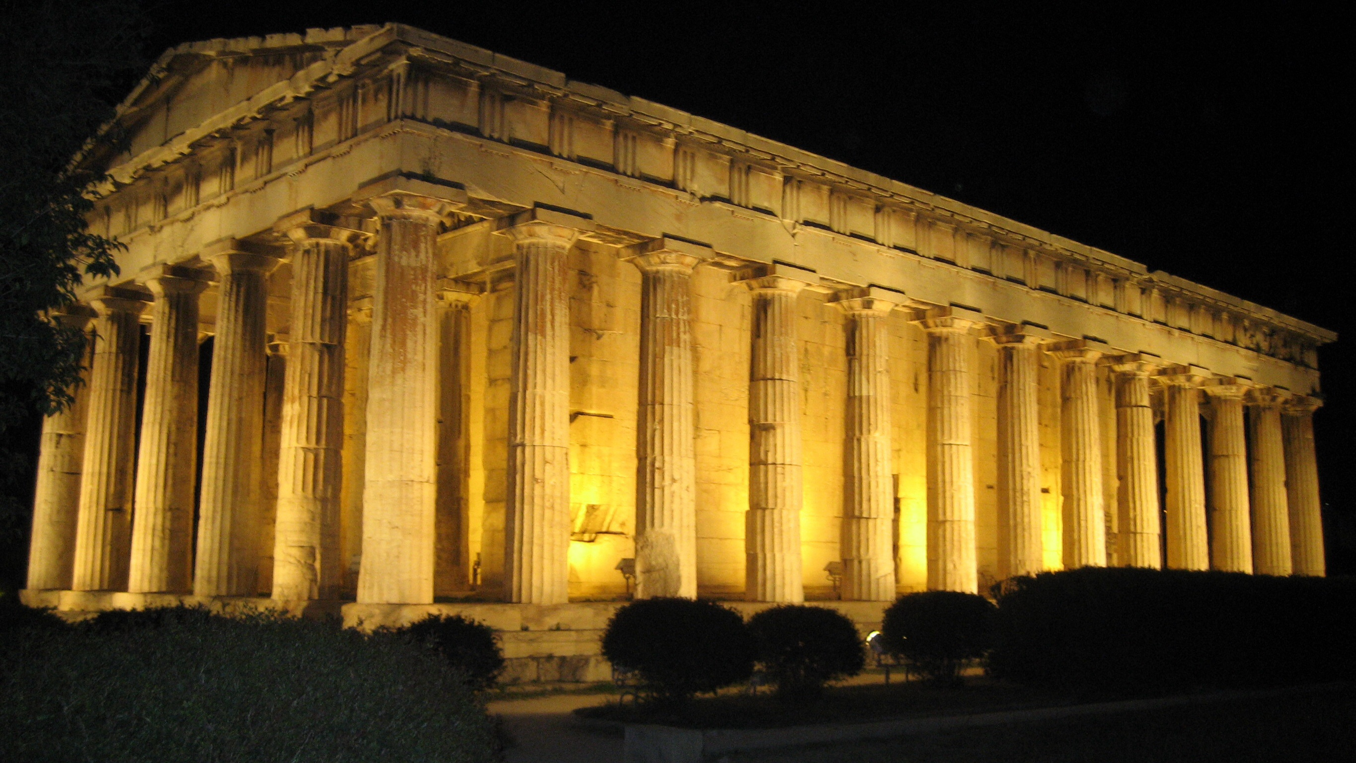 The Temple of Hephaestus or Hephaisteion (also Hephesteum; Ancient Greek: Ἡφαιστεῖον, Modern Greek: Ναός Ηφαίστου) or earlier as the Theseion (also Theseum; Ancient Greek: Θησεῖον, Modern Greek: Θησείο), is a well-preserved Greek temple; it remains standing largely as built. It is a Doric peripteral temple, and is located at the north-west side of the Agora of Athens, on top of the Agoraios Kolonos hill. From the 7th century until 1834, it served as the Greek Orthodox church of St. George Akamates.